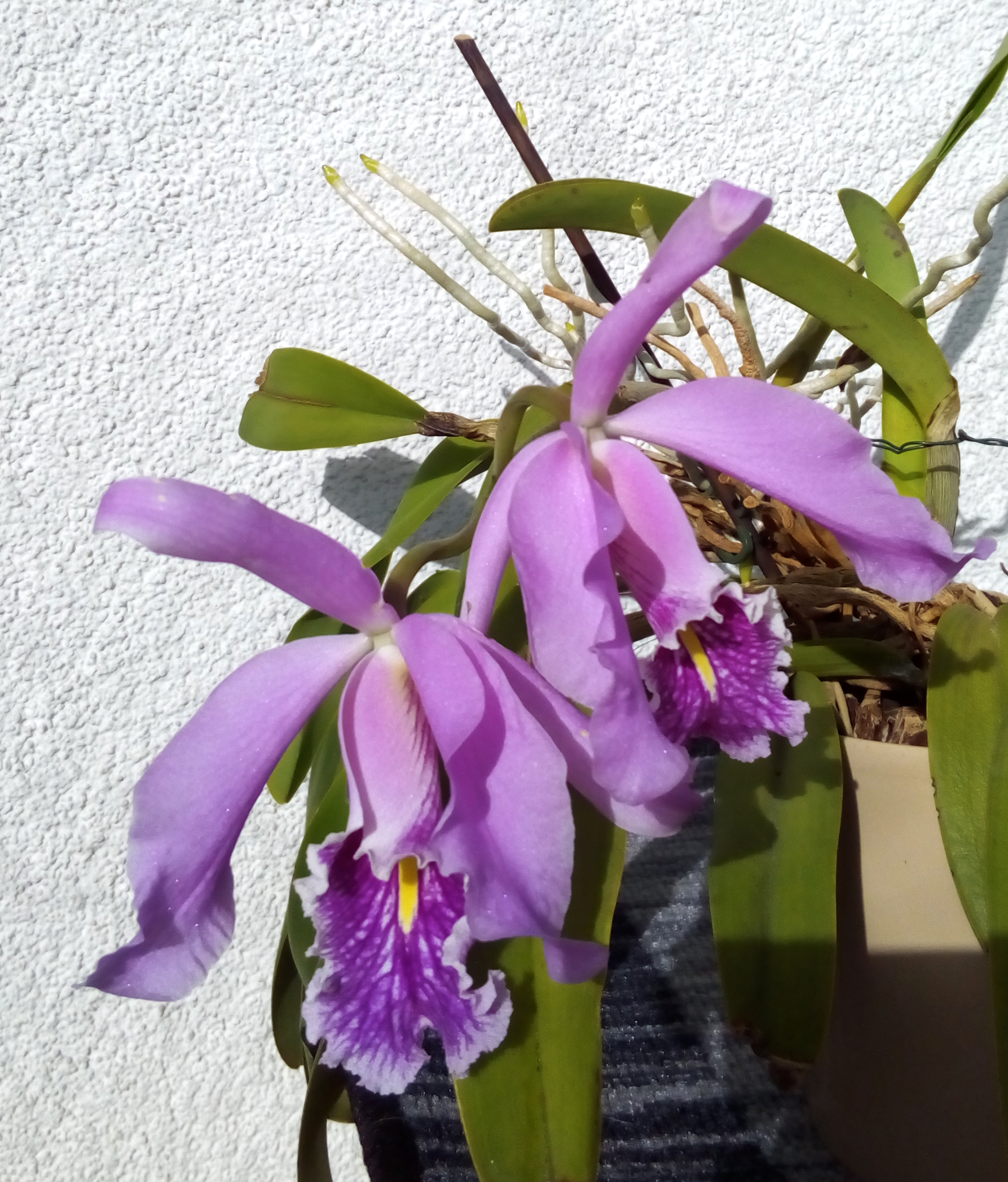 Location: Warsaw, Poland; my own plant